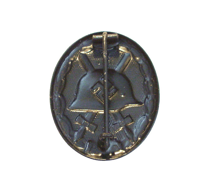 Black wound badge back